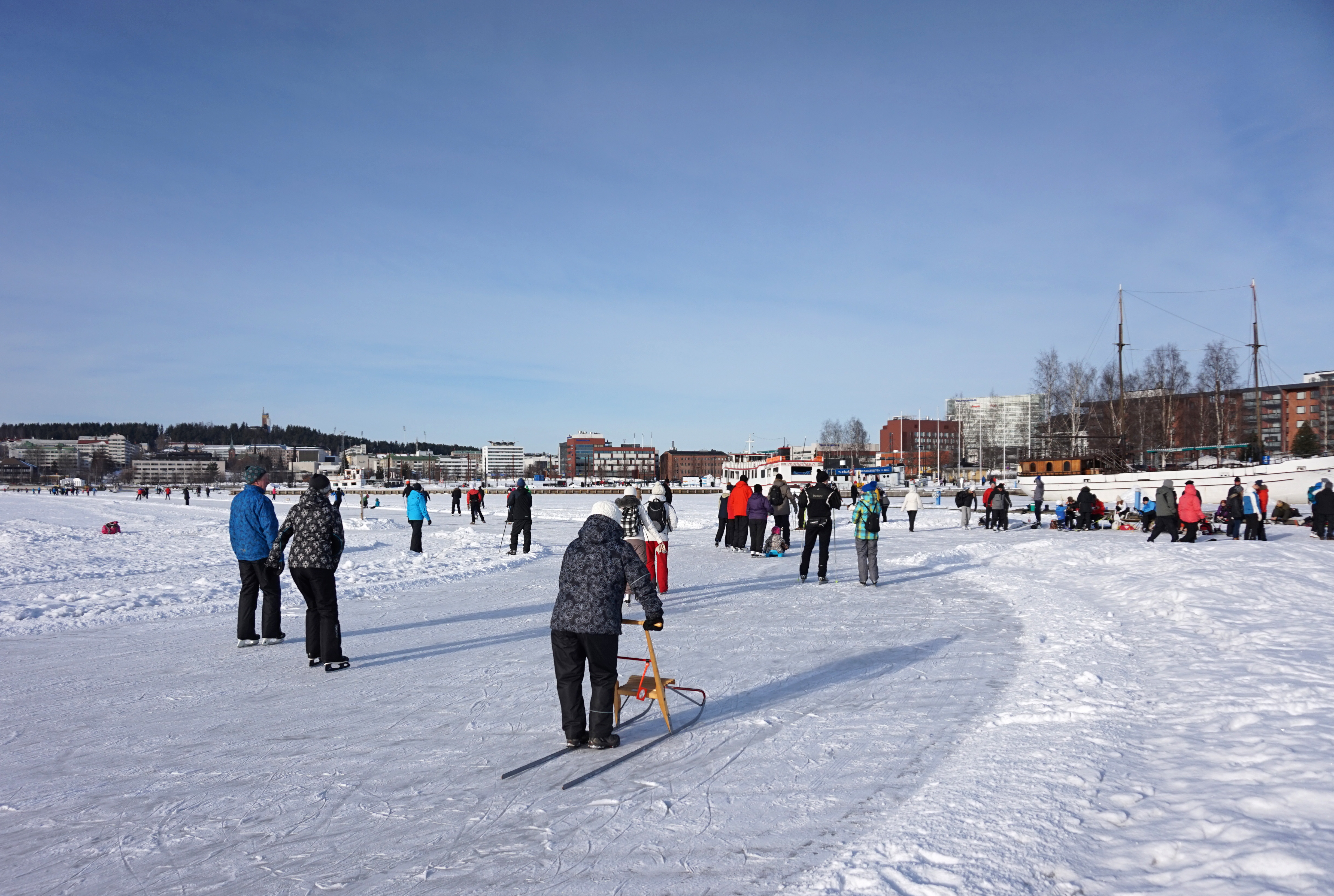 Ice skaters and kicksleds on the frozen lake Jyväsjärvi in winter 2015, Jyväskylä.